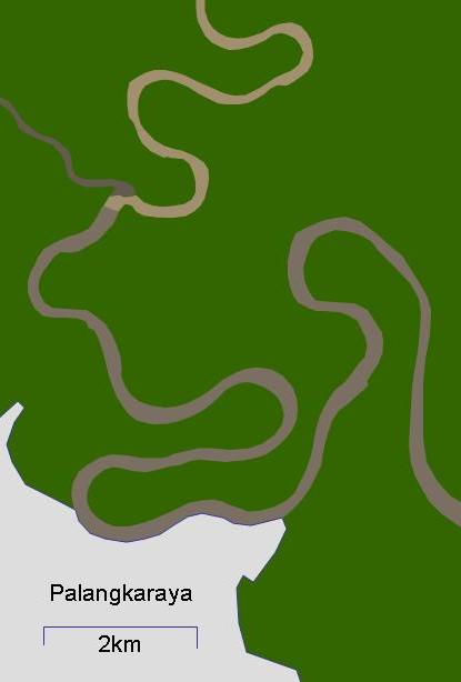 Kahayan river meandering to the north of Palangkaraya